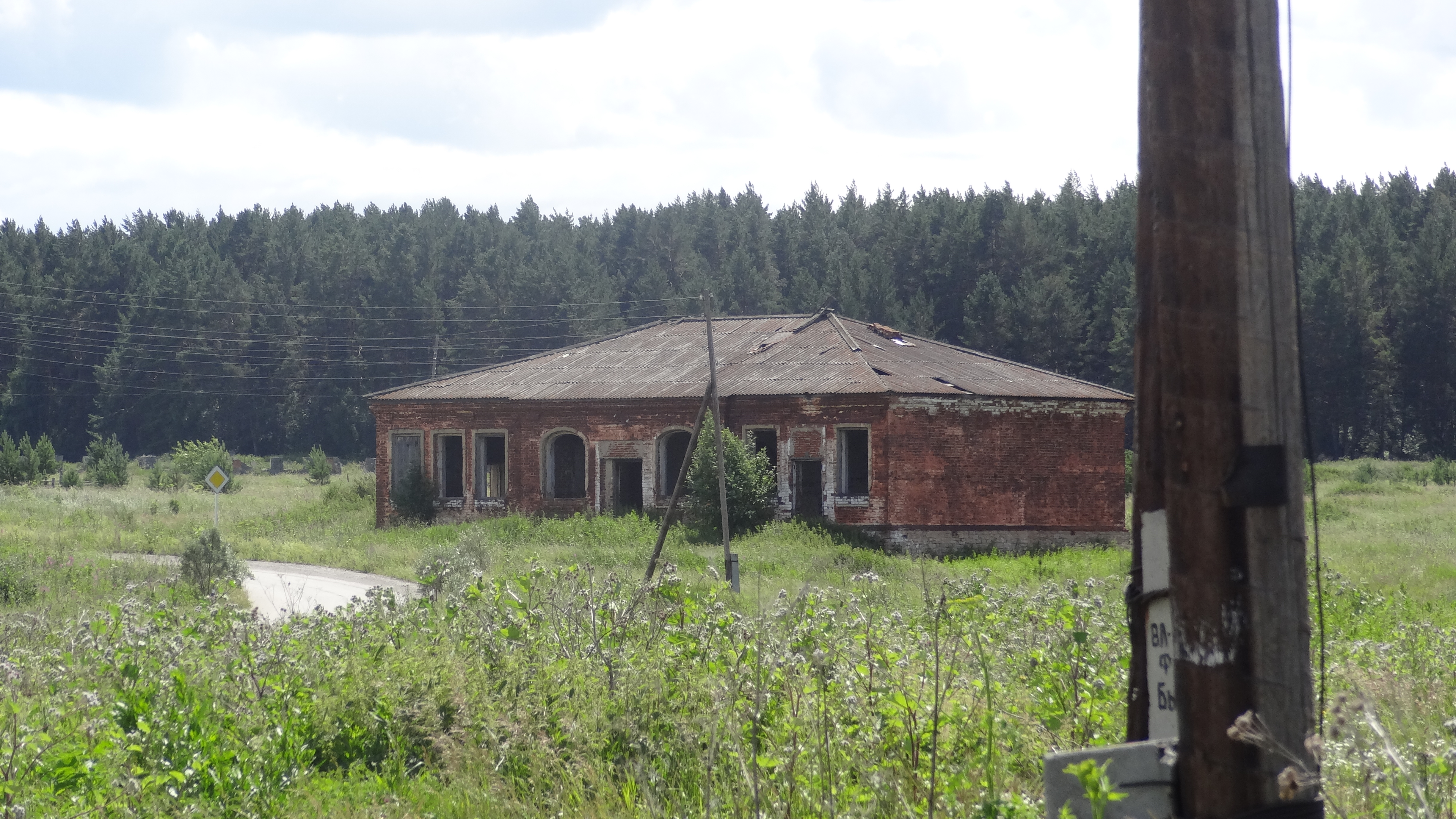 Davidova village, Sverdlovsk Oblast, Russia